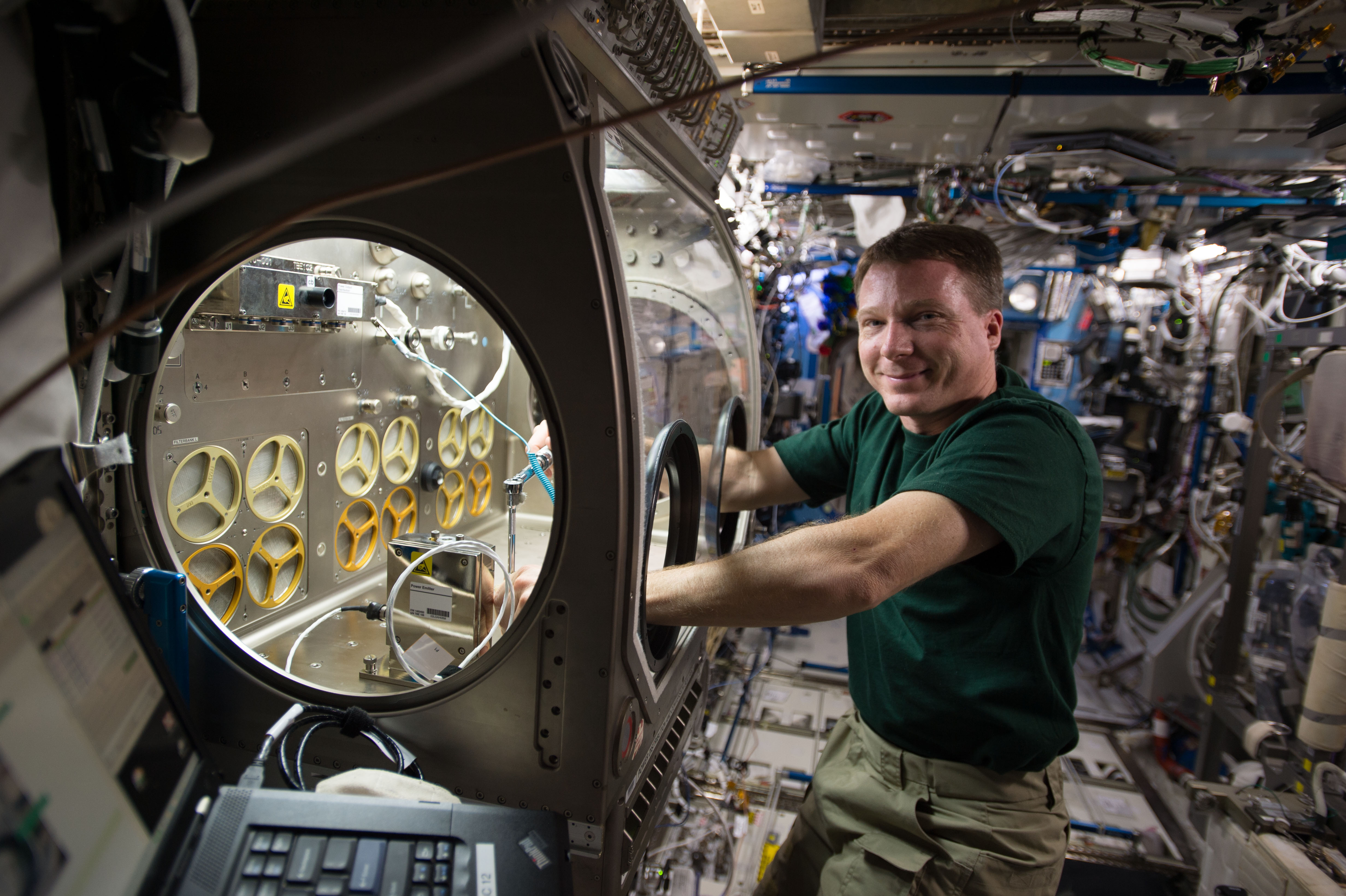 Expedition 42 Flight Engineer Terry Virts of NASA is seen here on 16 December 2014 setting up the station's Microgravity Science Glovebox for the upcoming Micro-5 experiment. Micro-5 will use roundworms as a model organism with the microbe Salmonella typhimurium, which causes food poisoning in humans, to better understand the risks of in-flight infections in space explorers.